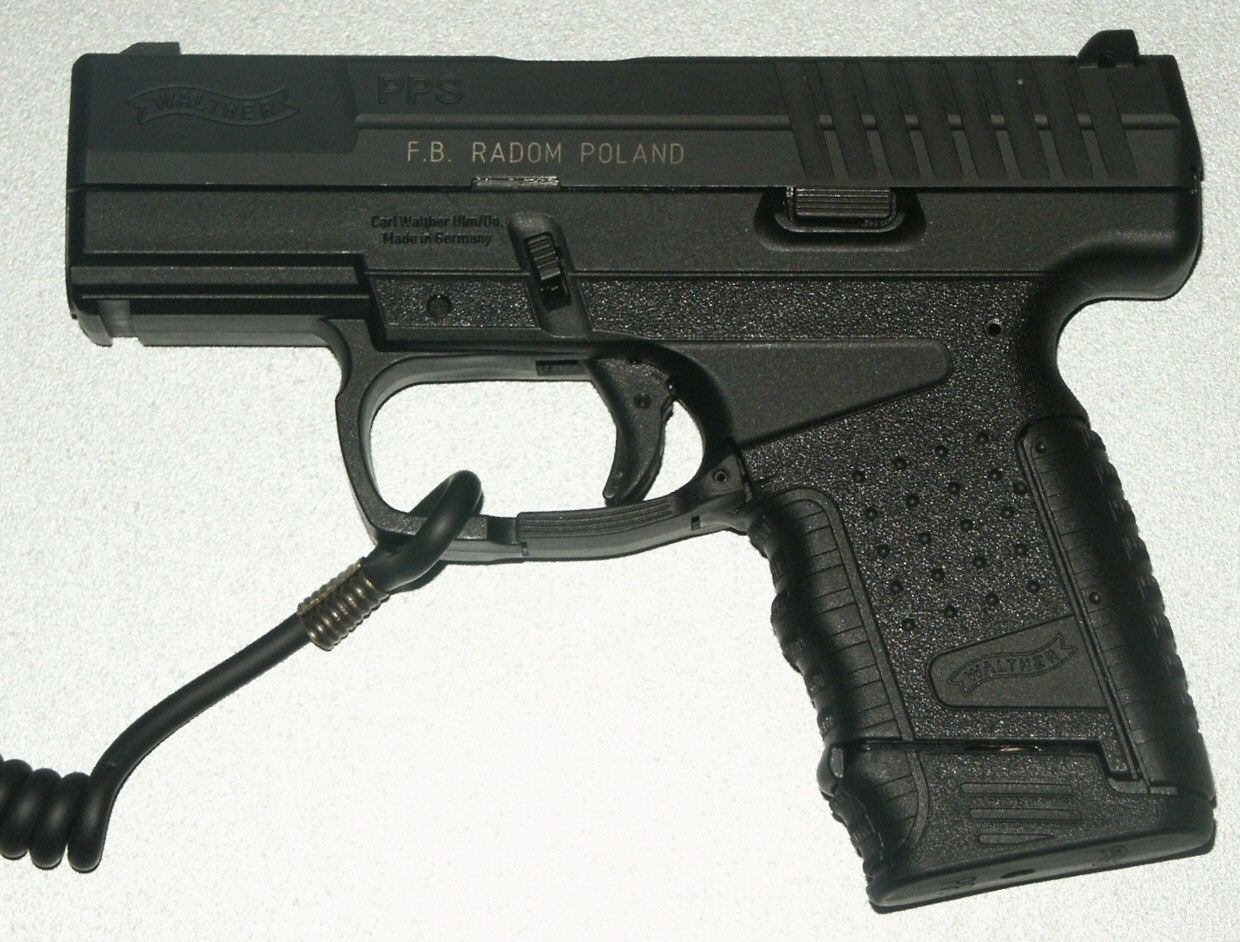 Walther PPS (signature FB Radom is for exhibition purpose only, these pistols are not produced by FB Radom so far (2008))